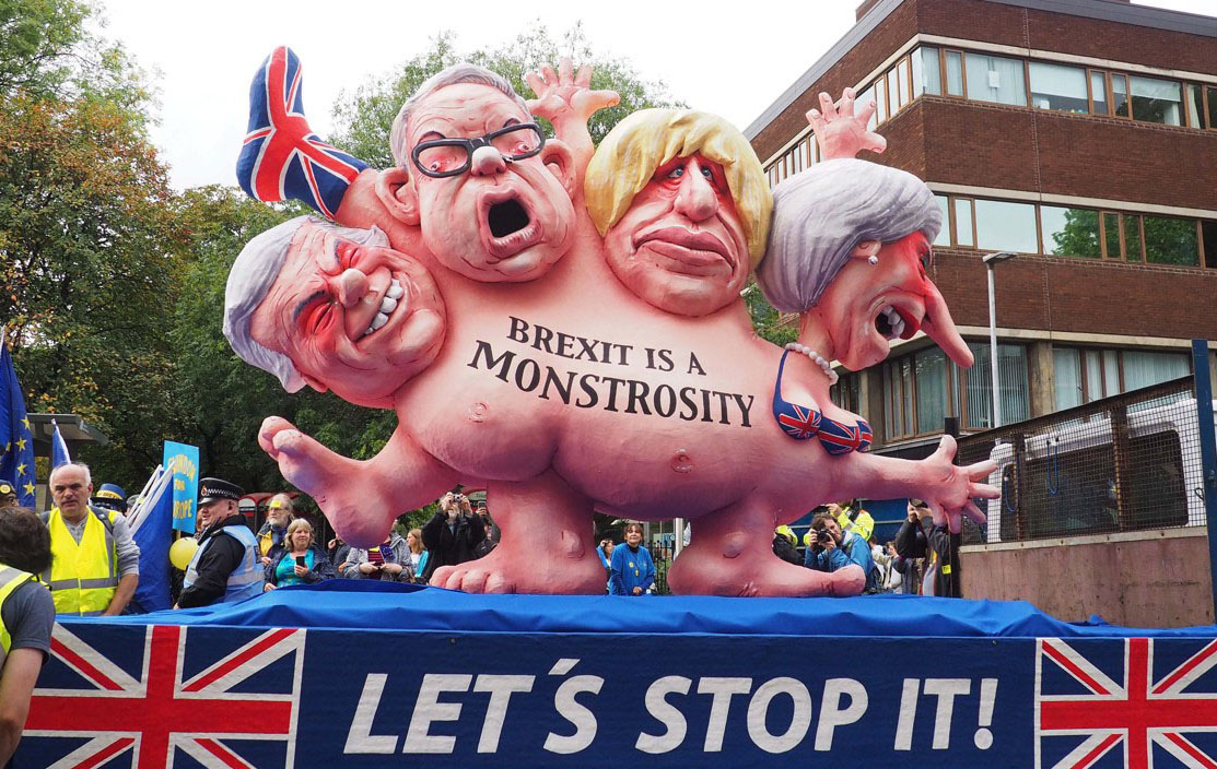 At the front of a demonstation against Brexit in Manchester a float showed a multi-headed chimera with the faces of Theresa May and three leading Brexit campaigners: Foreign Secretary Boris Johnson, Environment Secretary Michael Gove and Brexit Secretary David Davis. It beared the inscription "Brexit is a monstrosity" - "Let's stop it". The float was made by Jacques Tilly and his team. The photo was taken by Robert Mandel.